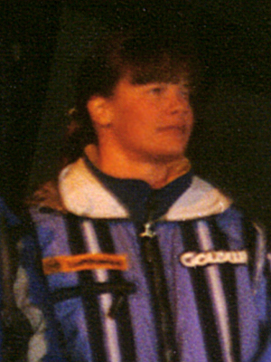 Swedish alpine skier Kristina Andersson during the public draw for the second slalom in Semmering (Austria) on December 29th, 1996.